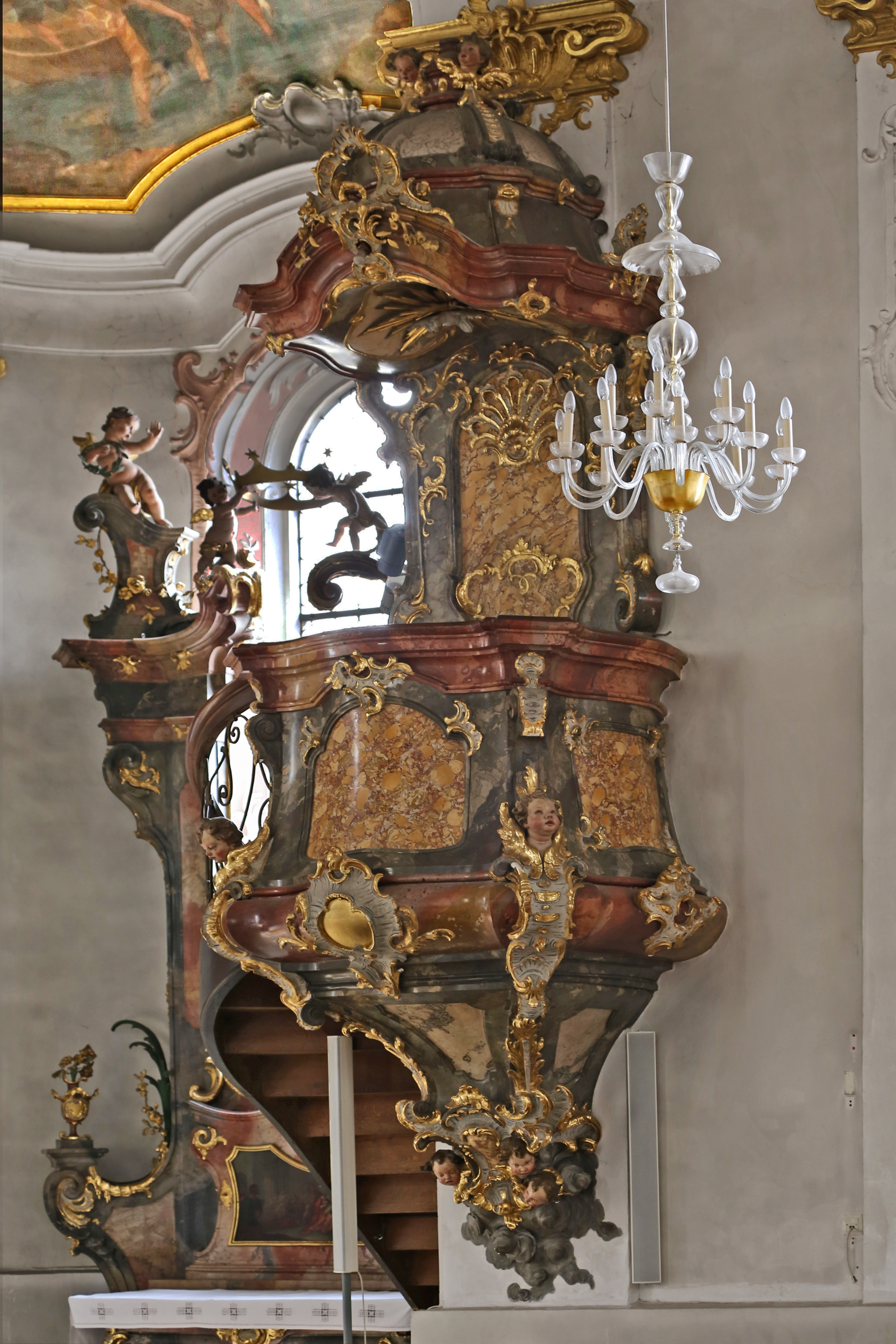 Pulpit of the baroque church St. Johann Evangelist in Sigmaringen. The church was built between 1757 and 1763. Sigmaringen is a city on the upper Danube in Baden-Württemberg.